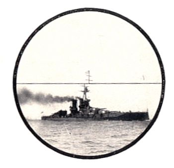 Range-finding Instruments Eyepiece view of a twelve-foot Barr & Stroud rangefinder Photo: By Courtesy of Messrs. Barr & Stroud